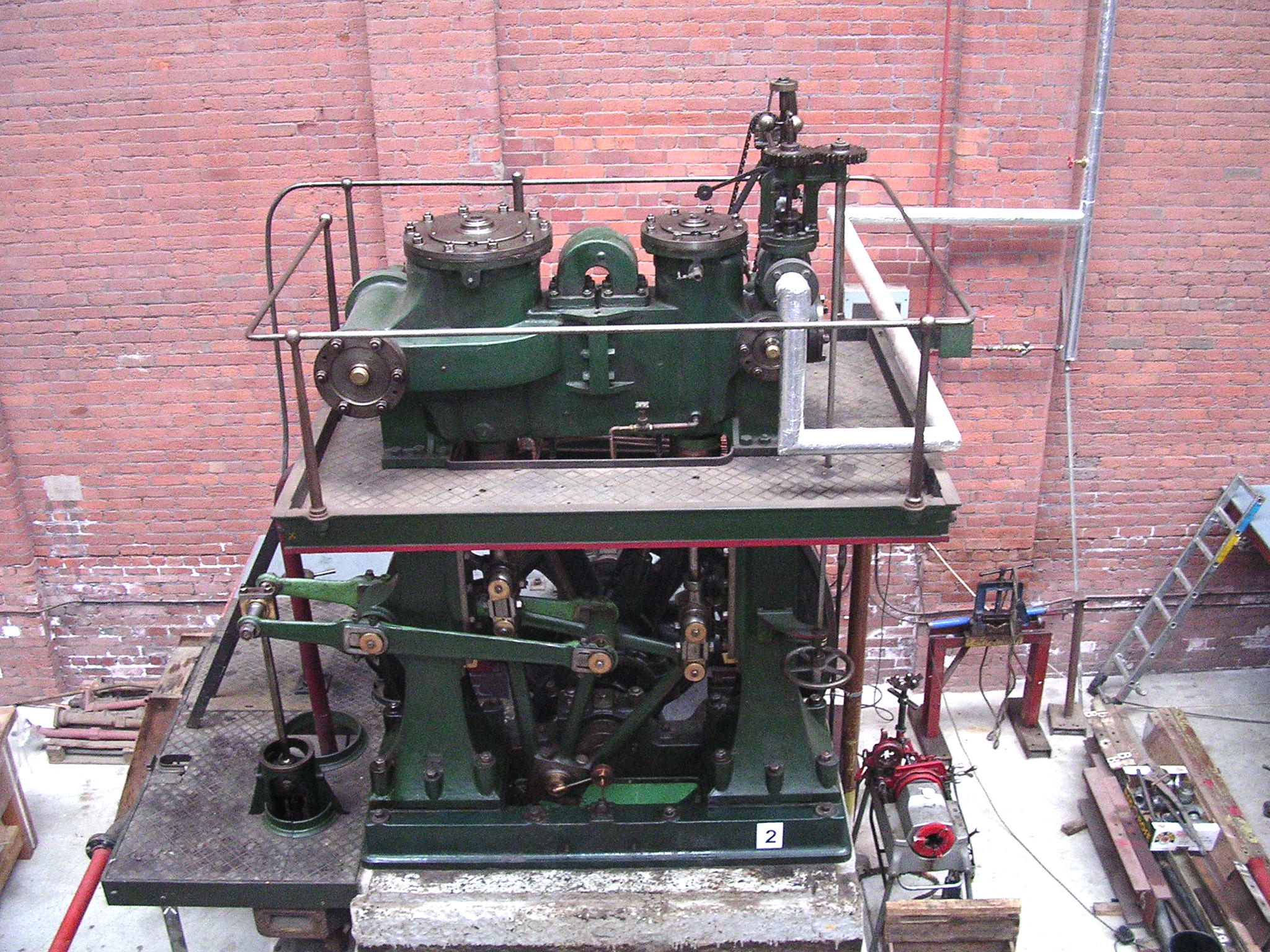 This type of engine was originally designed for marine use but John Musgrave of Bolton obtained a licence to build them as mill engines.This is believed to be the only large engine of its type to have survived.